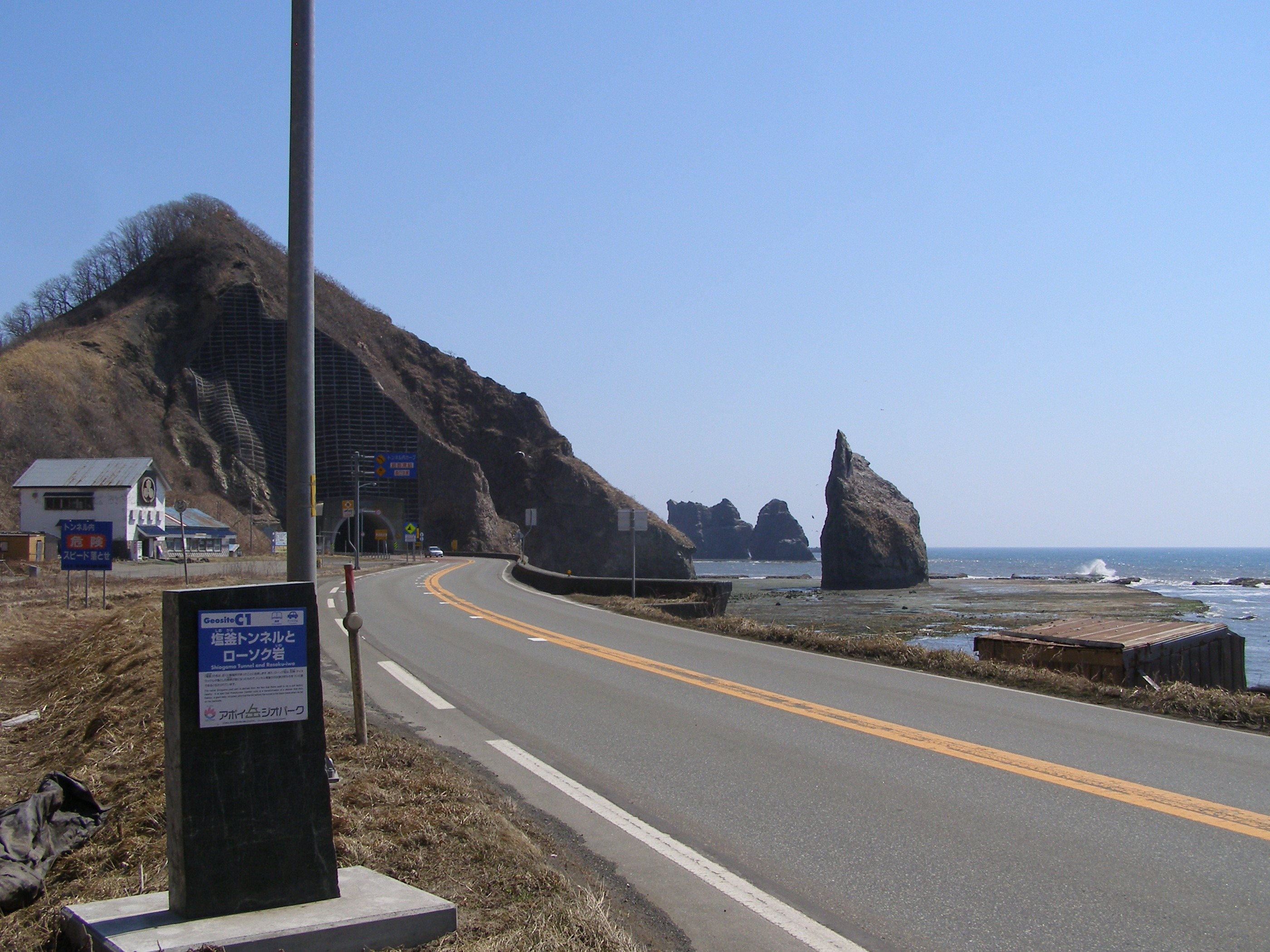 Samani Town Shiogama-rohsoku-iwa